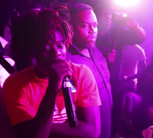 9lokkNine performing in a concert at The Barn in Sanford